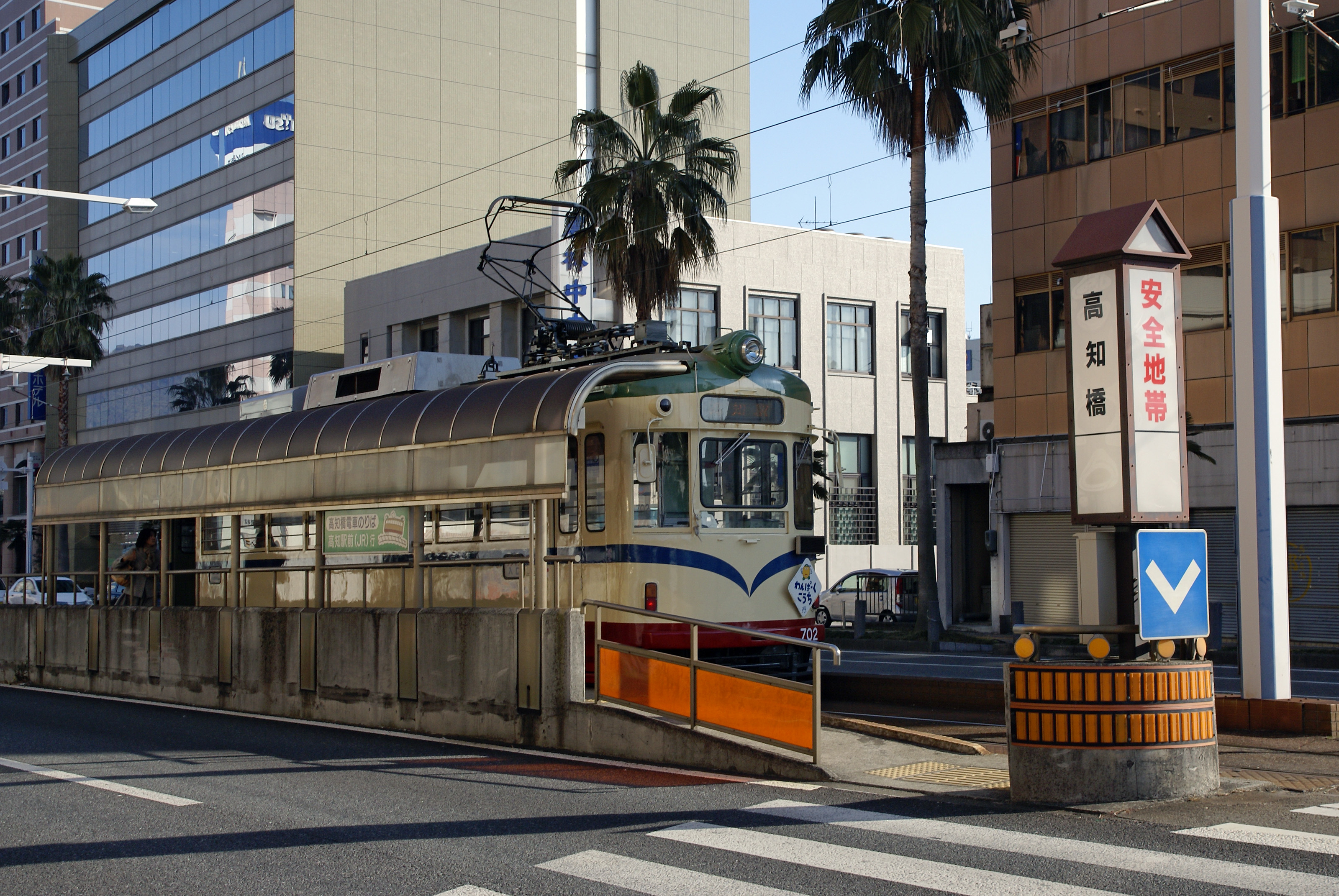 Kochi-bashi Station in Kochi, Kochi prefecture, Japan